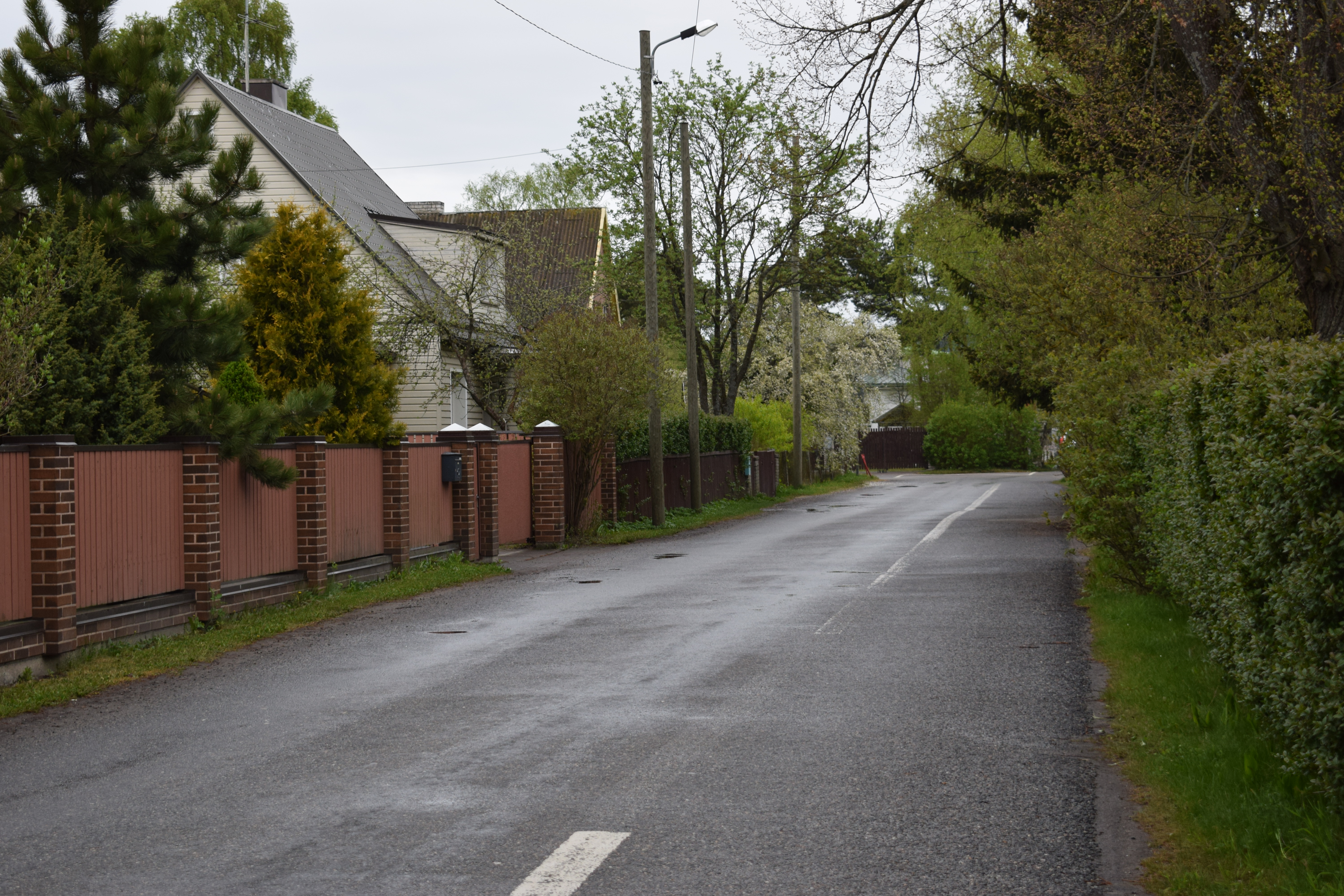 Metsniku tee